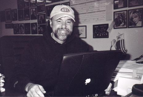 Beau Smith at his desk at the Flying Fist Ranch.